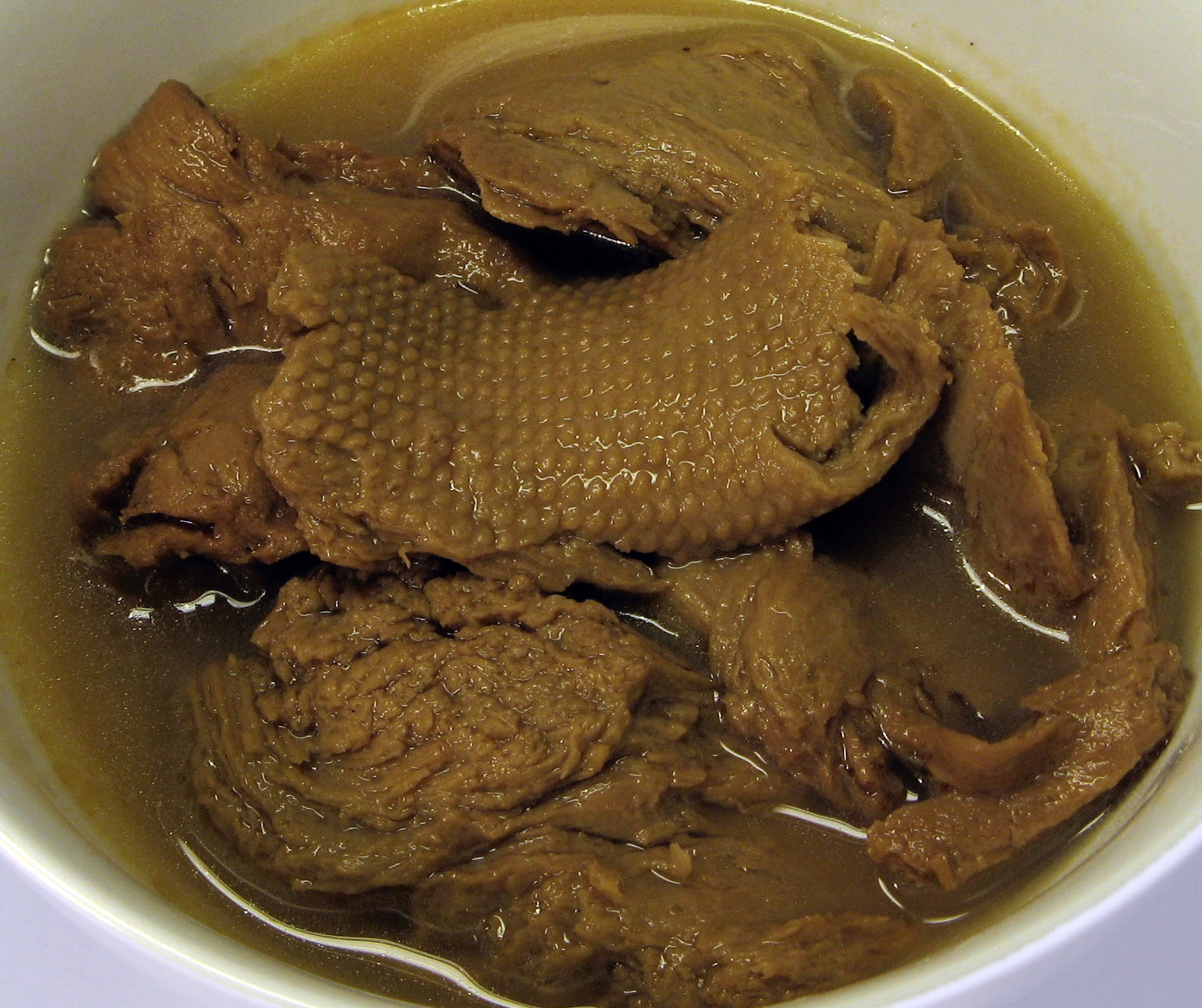 Vegetarian "mock duck" made of wheat gluten (alias Seitan) in a brine with soy sauce, sugar, salt, soy bean oil. Product of Taiwan ("Wu Chung" brand). Purchased in a can in an Asian supermarket in Germany. See also the same content in an original opened can: Image:Wheat gluten (vegetarian mock duck) opened can (2007).jpg.